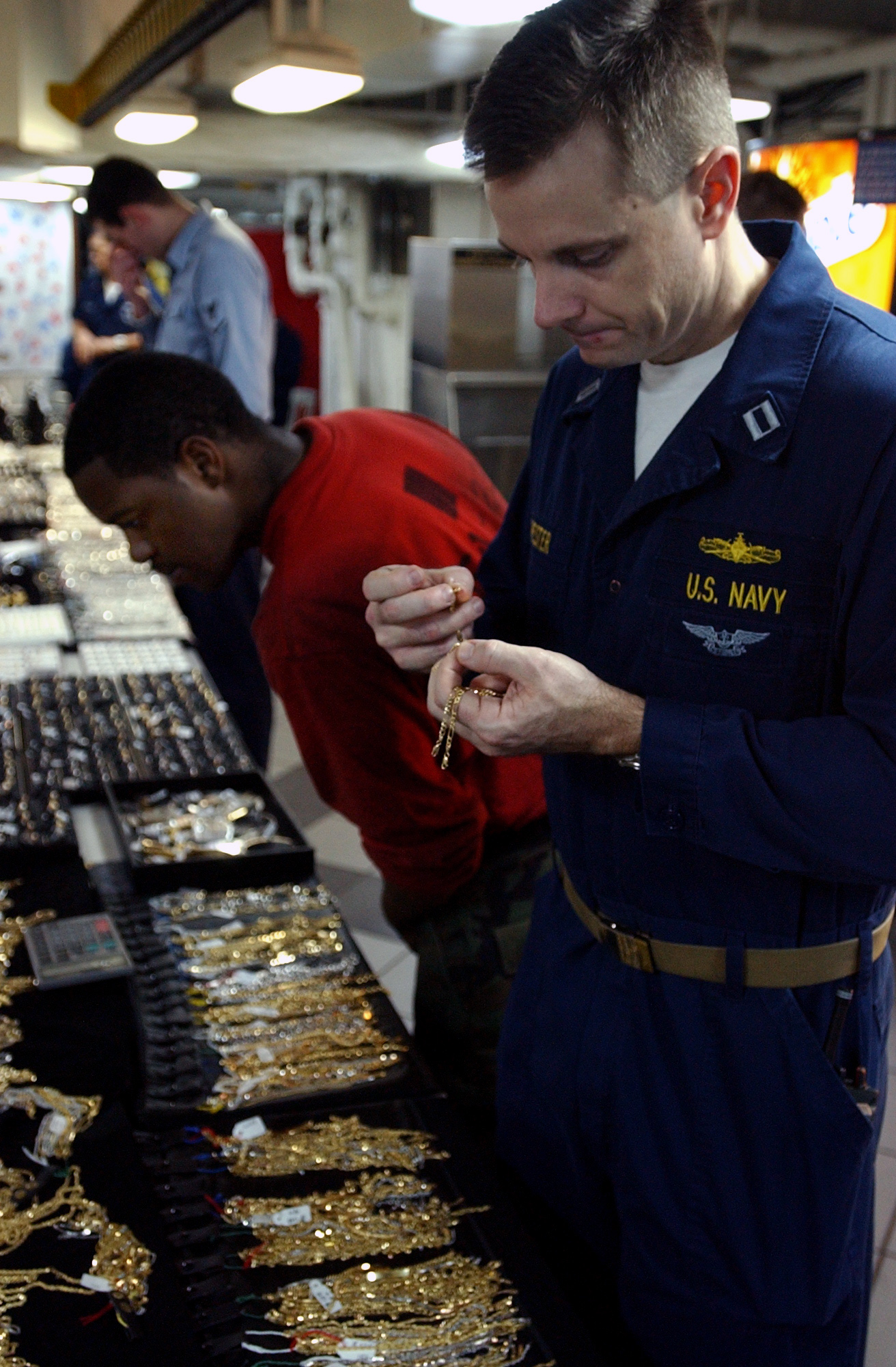 Persian Gulf (May 13, 2006) - Lt. Taylor Forester makes a few last minute decisions before purchasing a gold necklace from a Navy Exchange vendor aboard the Nimitz-class aircraft carrier USS Ronald Reagan (CVN 76). Navy Exchange vendors from more than three countries offered the crew jewelry, clothing, and many other gifts during the shipUs maiden deployment. Reagan and embarked Carrier Air Wing One Four (CVW-14) are currently deployed as part of a routine rotation of U.S. maritime forces in support of the global war on terrorism. U.S. Navy photo by Journalist 2nd Class Shane Tuck (RELEASED)